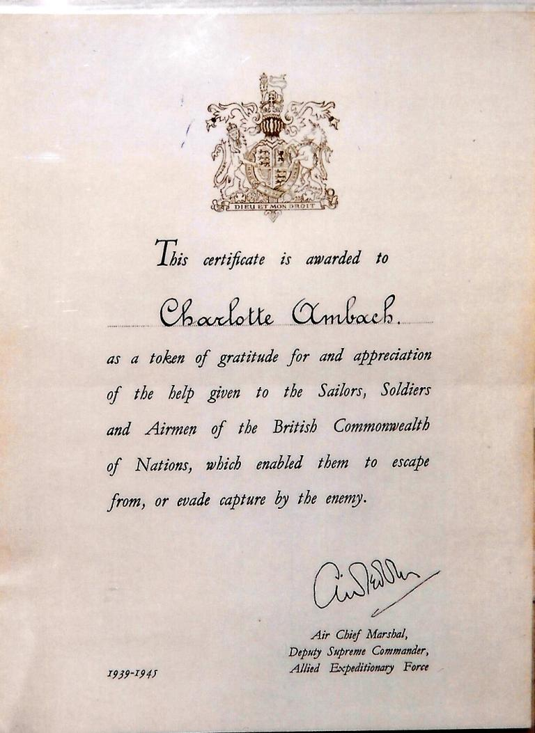 Tedder Certificate awarded to Charlotte Ambach, signed by Arthur Tedder.